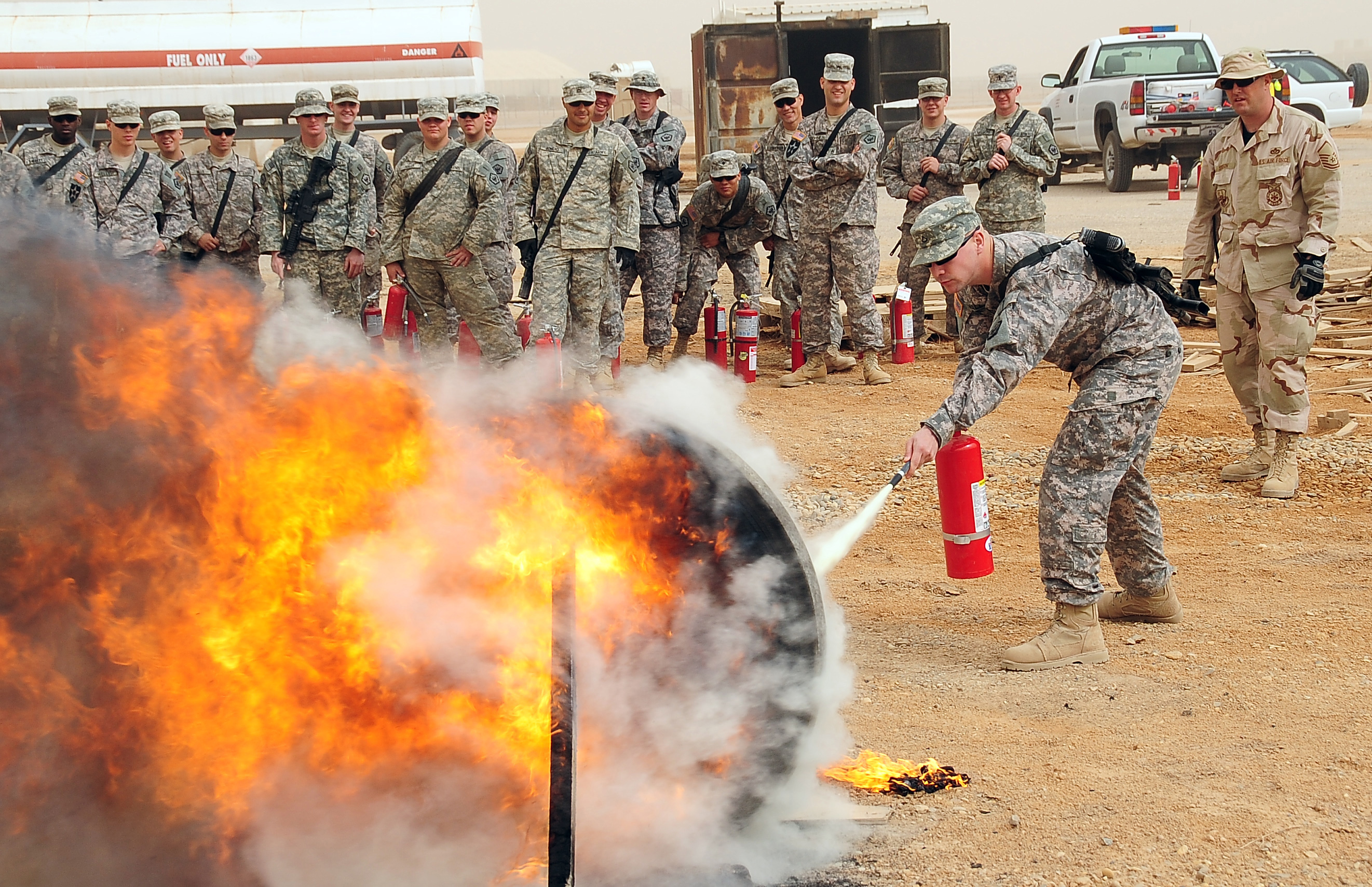 Pvt. 1st Class Jon Wallace, 3rd Platoon, 570th Sapper Company, 14th Engineer Battalion, 555th Engineer Brigade uses a fire extinguisher to put out a tire fire, Feb. 15. The fire department offers classes to Army units to ensure that they are well trained in putting out mine resistant ambush protective vehicle fires during convoy operations. See more at Army.mil